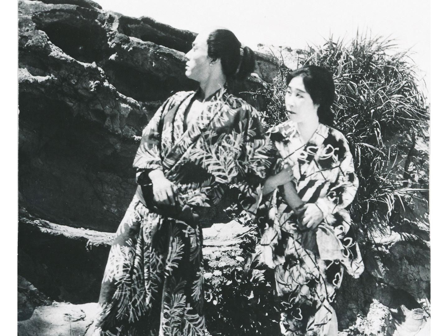 Yoshiko Kawada (right) in a scene of Shima no onna (島の女) directed by Henry Kotani - 1920